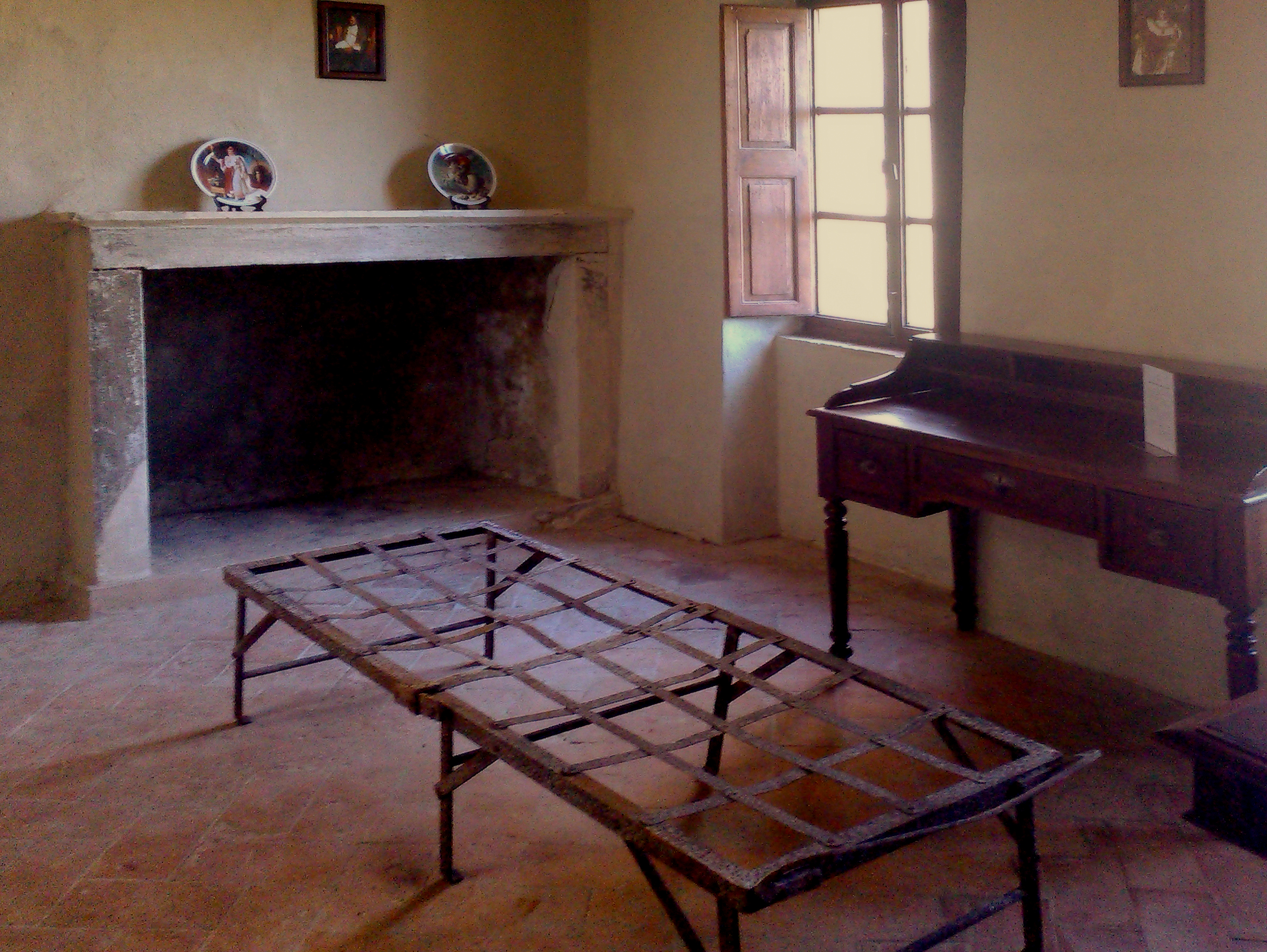 Elba island